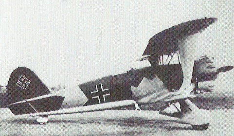 Photograph of a German Henschel Hs 123 ground attack plane taken before 1939.